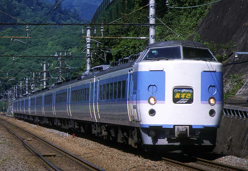 JR East 183-1000 series EMU on an "Azusa" service on the Chuo Main Line between Takao and Sagamiko stations